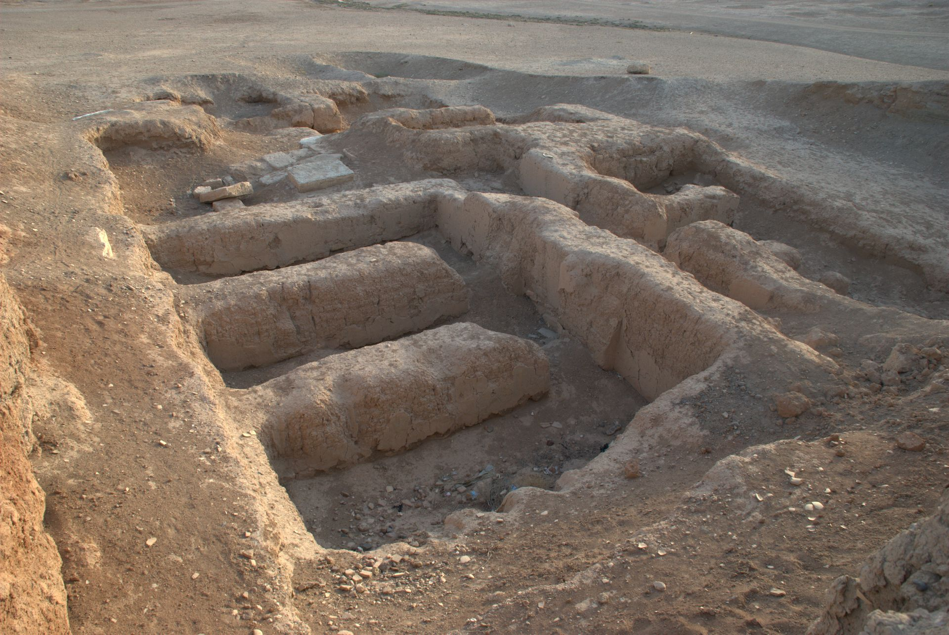 Tuttul, Tell Bia near ar-Raqqah, Syria. Tombs south of central mound